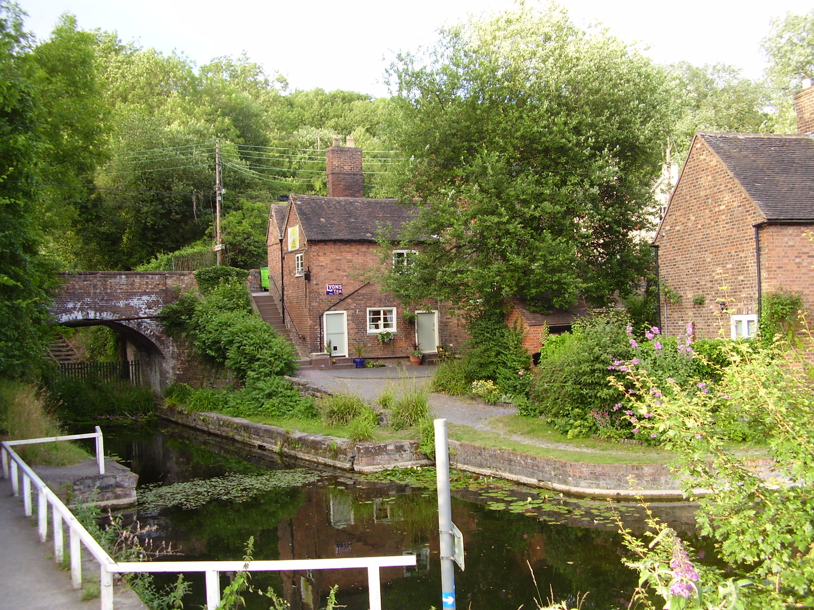 Coalport, Shropshire Photo by Barney Jenkins